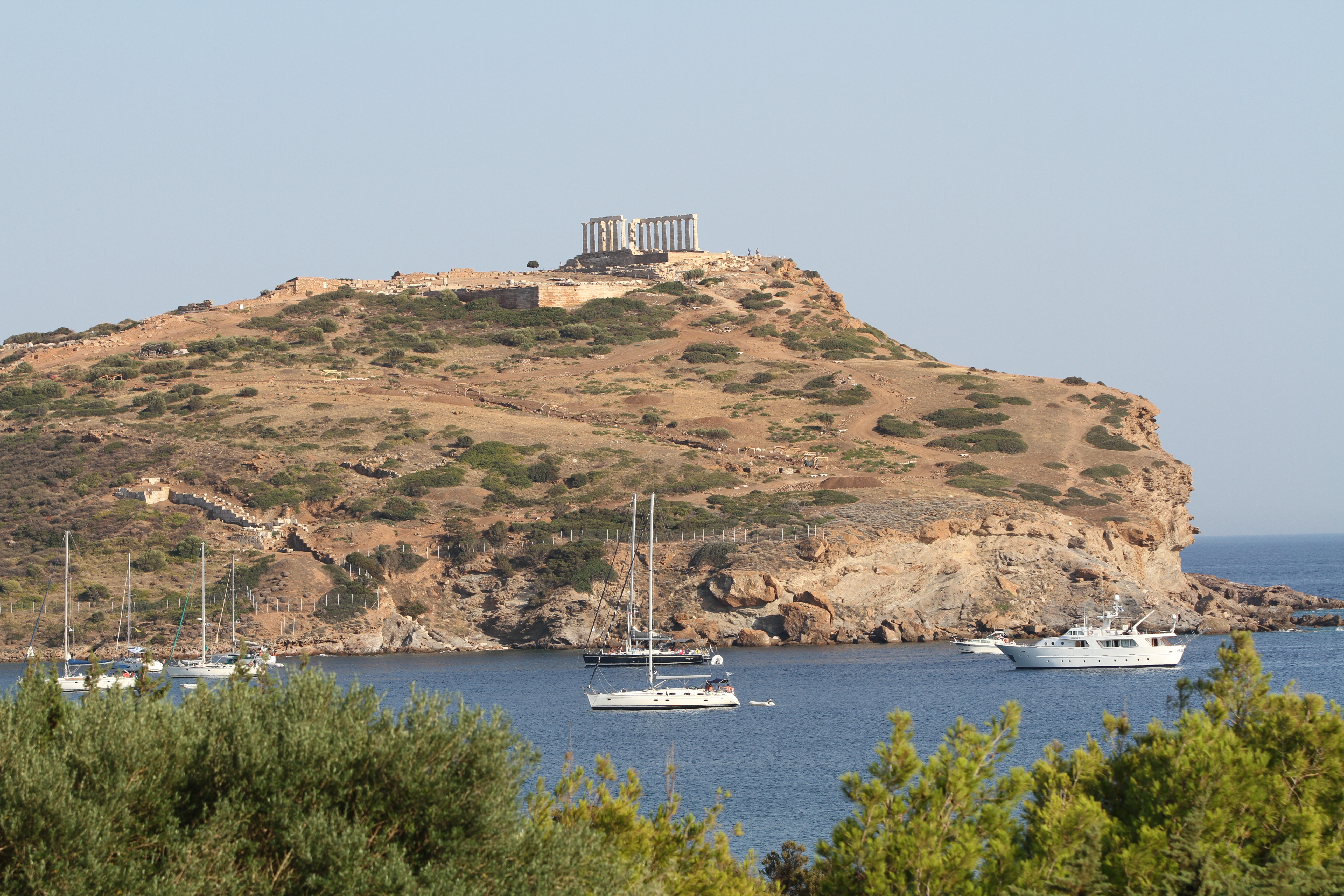 Sounio, Greece